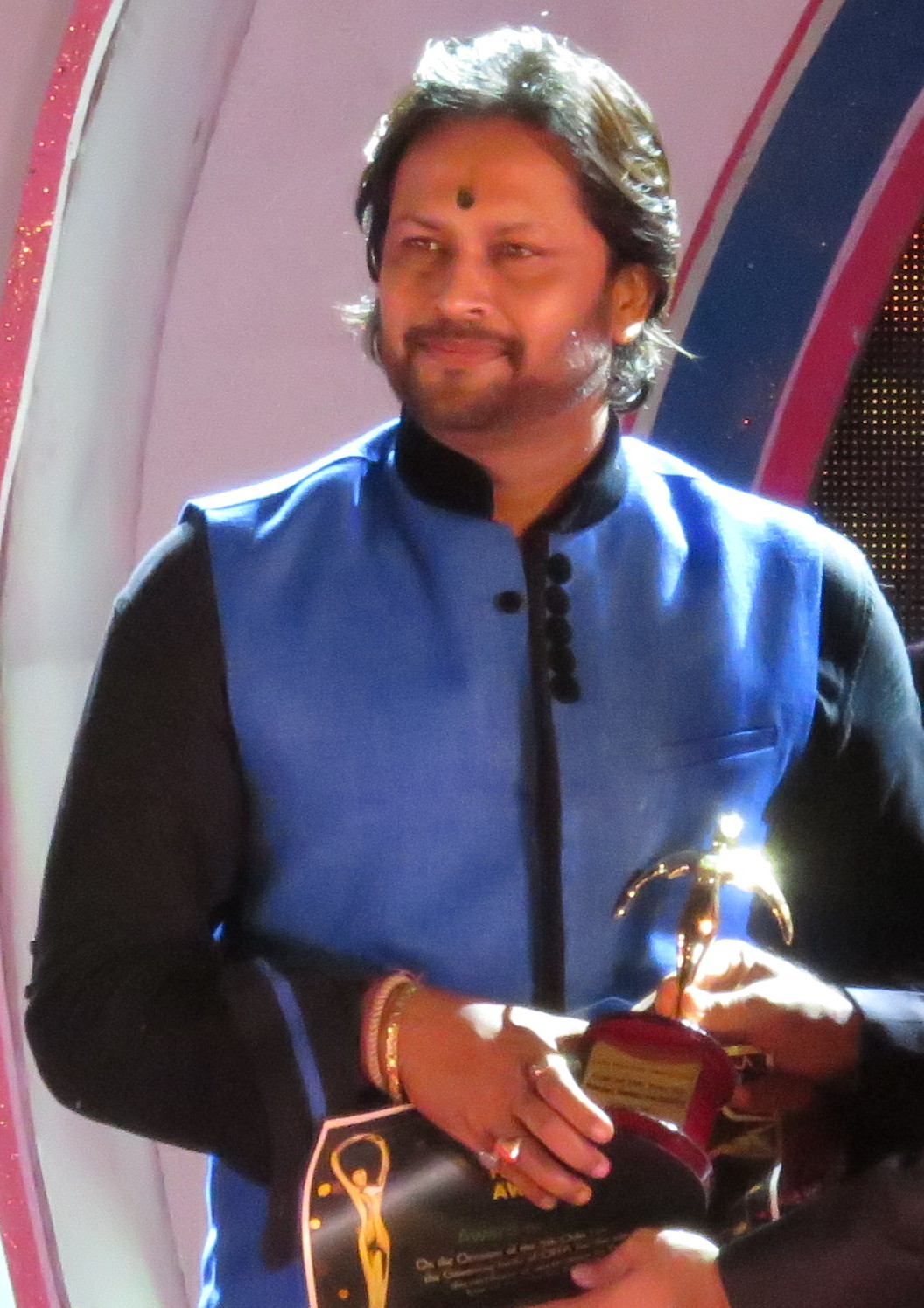 This photo was taken at at Bhubaneswar Odisha. The person or persons on this photo can be identified. ଓଡ଼ିଆ: ଏହି ଫଟୋଟି ଓଡ଼ିଶାରେ ଉଠାଯାଇଛି । ଏଥିରେ ଥିବା ଲୋକ ମାନଙ୍କୁ ଚିନ୍ହା ଯାଇ ପାରିବ ।